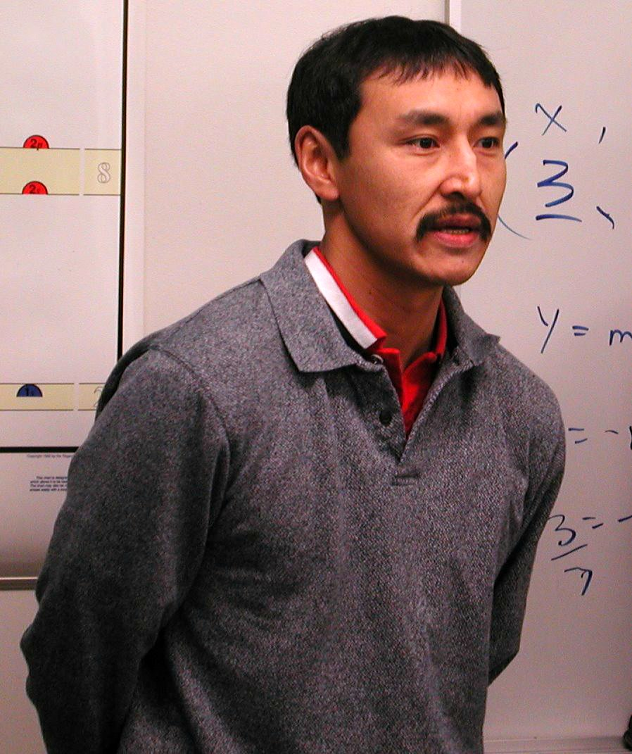 Paul Okalik, Premier of Nunavut, addressing high school students in Cambridge Bay, January 2001. Picture cropped to remove extra people.